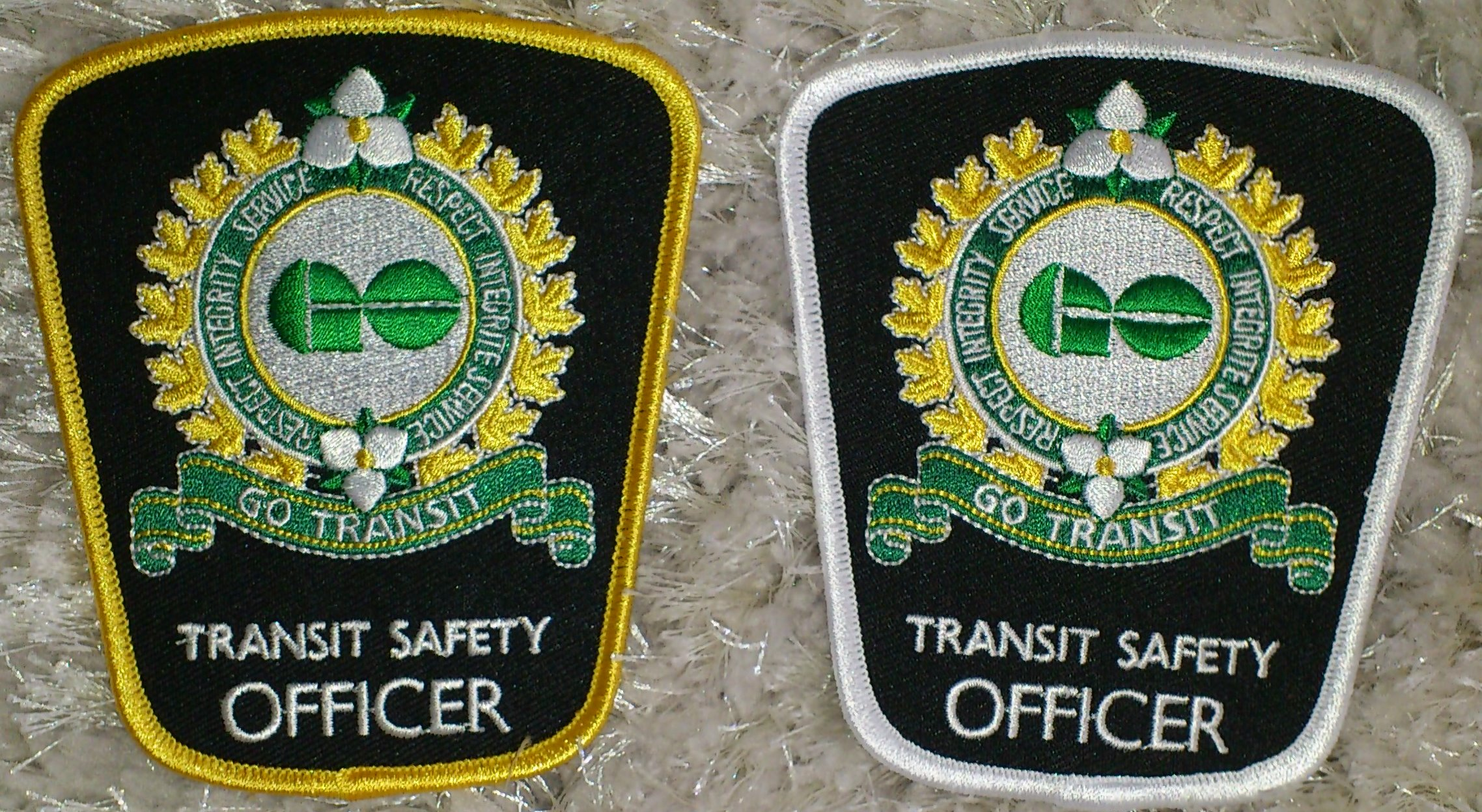 Current shoulder flashes from GO Transit Safety Enforcement Unit.